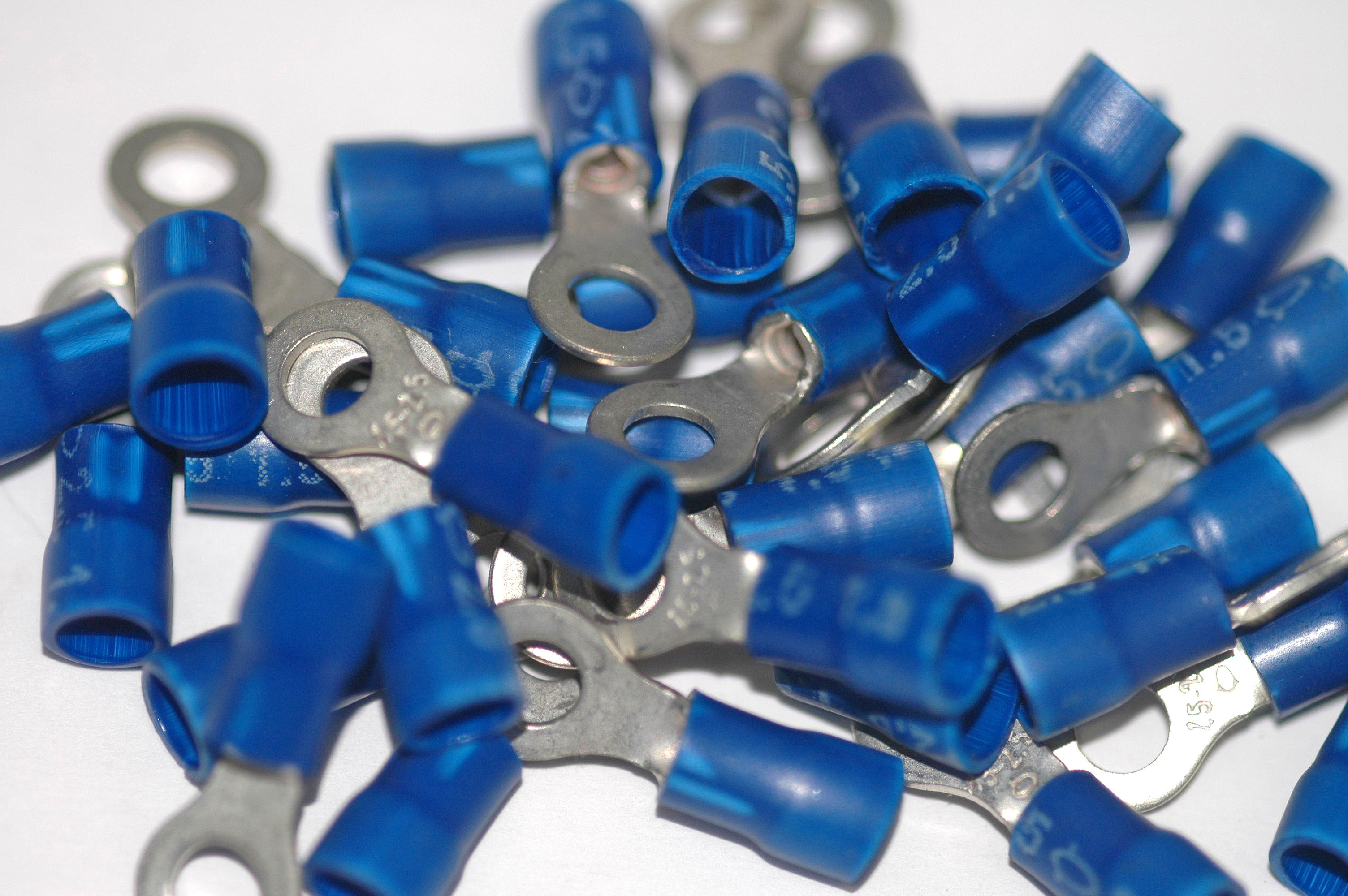 Electrical wire end connectors, ring style, for affixing to other connectors via a screw.